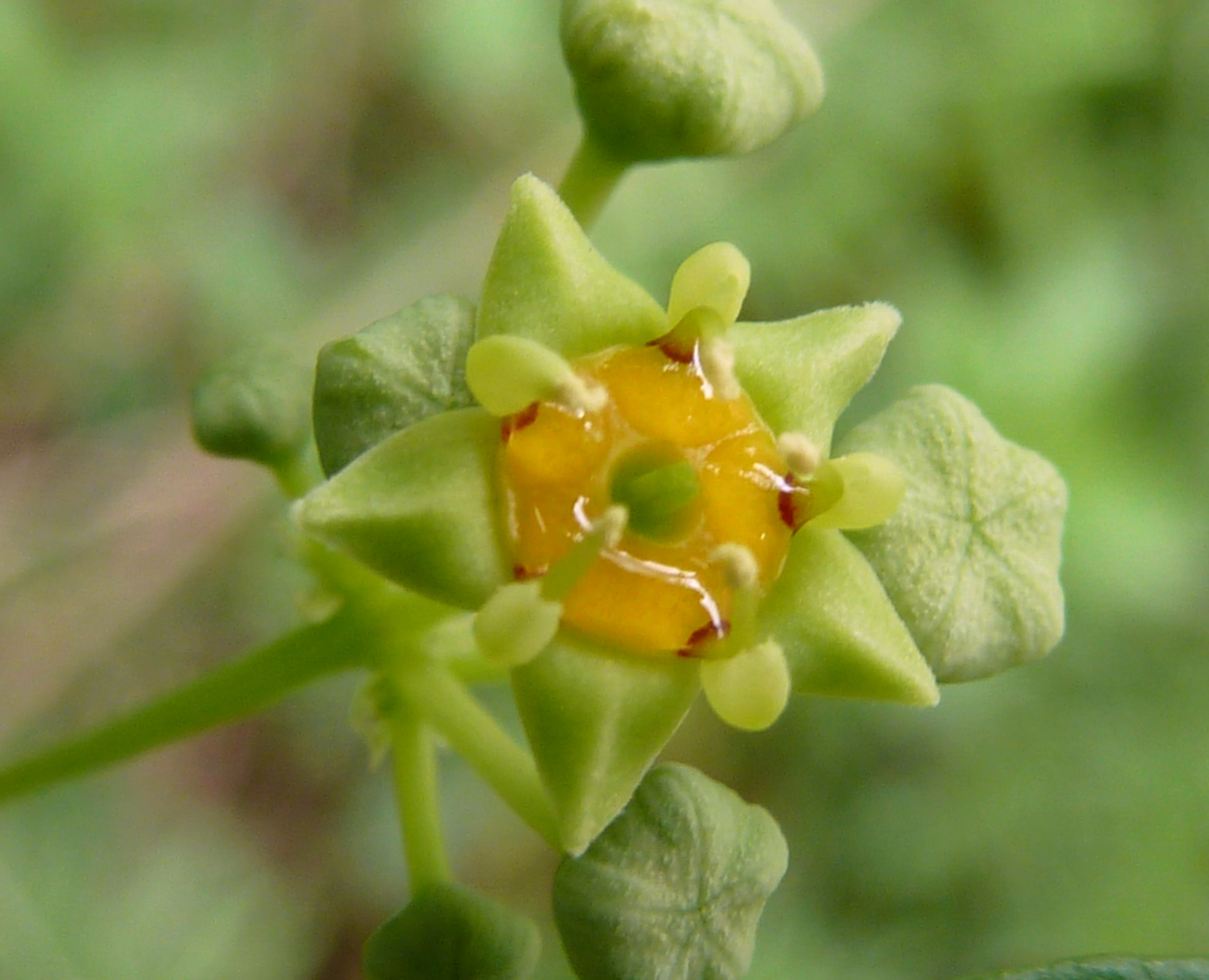 Bisexual flower of a Soap bush at Skeerpoort on the southern slope of the Magaliesberg, South Africa. 5 sepals and 5 petals are visible, with (yellow) annular nectary disk. The small, clawed petals embrace the stamens.